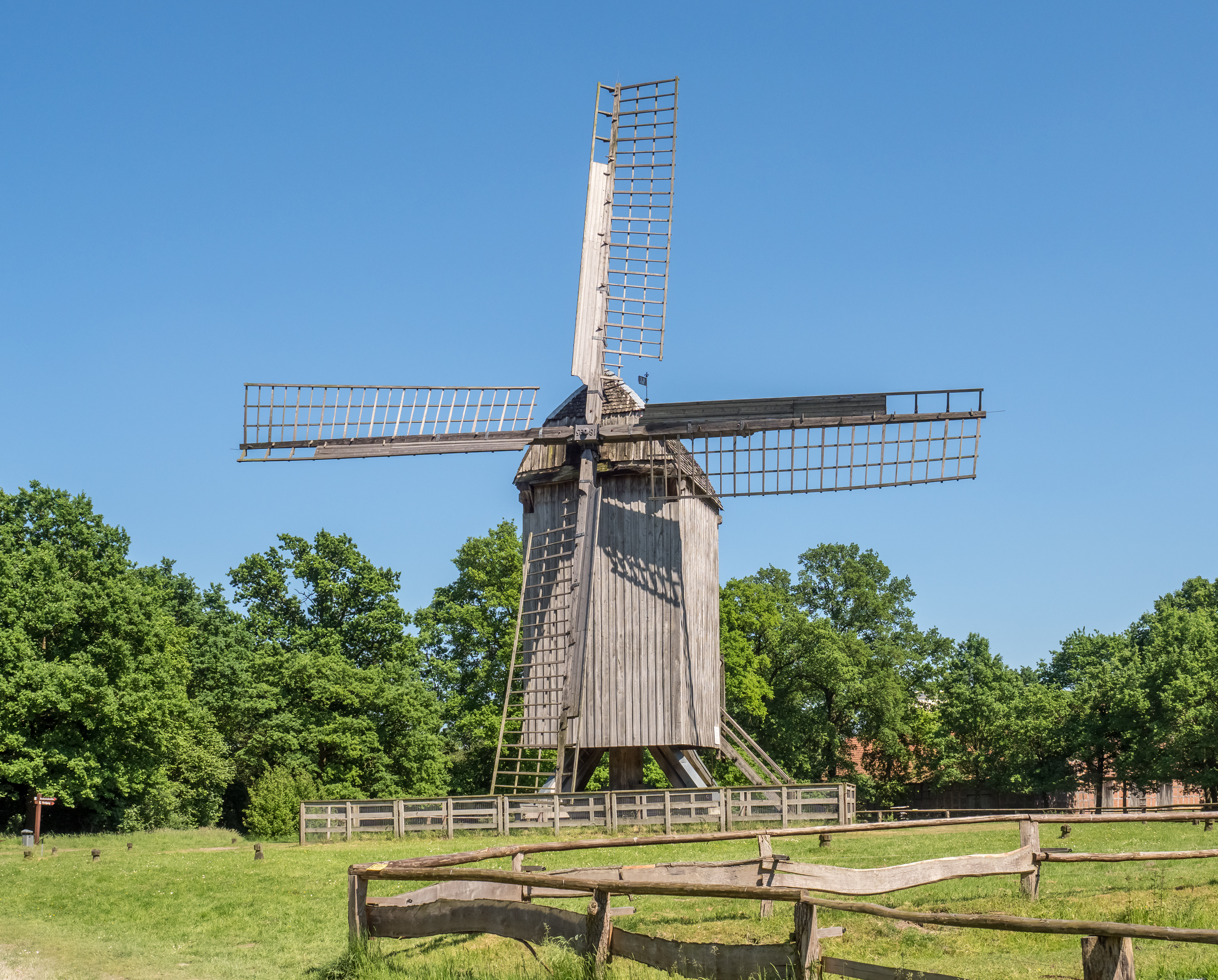 Bockwindmill Essern in the museum village Cloppenburg